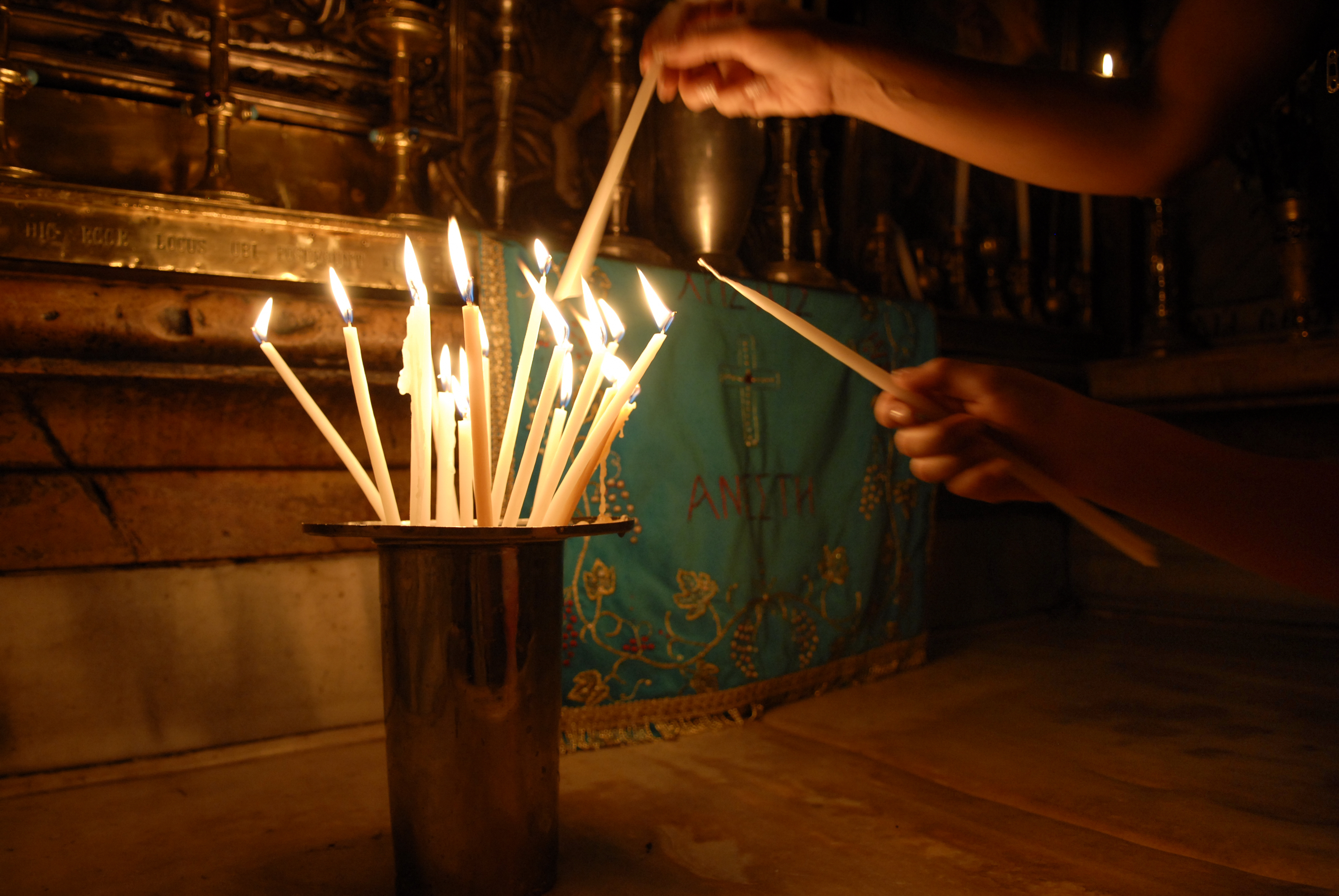 Candles on the tomb of Jesus, Church of the Holy Sepulchre in Jerusalem (2008)